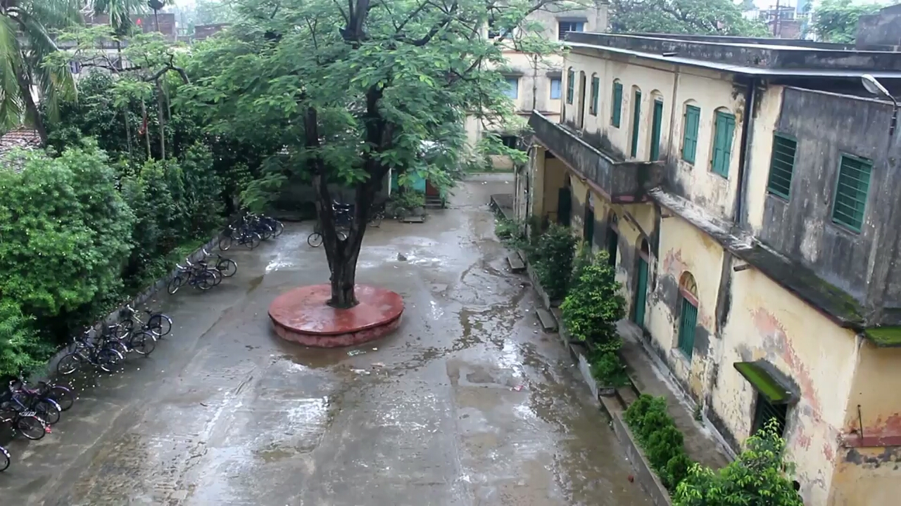 গরিফা উচ্চ বিদ্যালয় 2